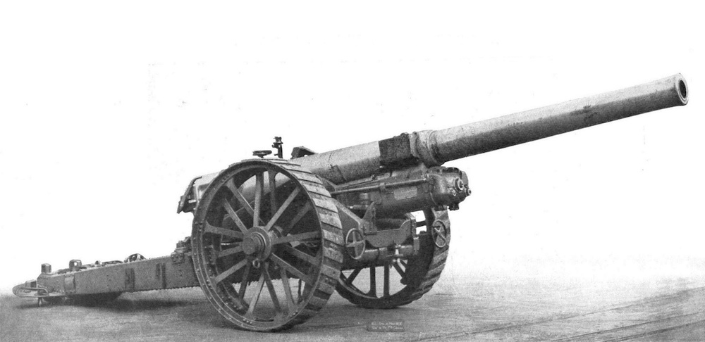 6-inch Mark XIX gun